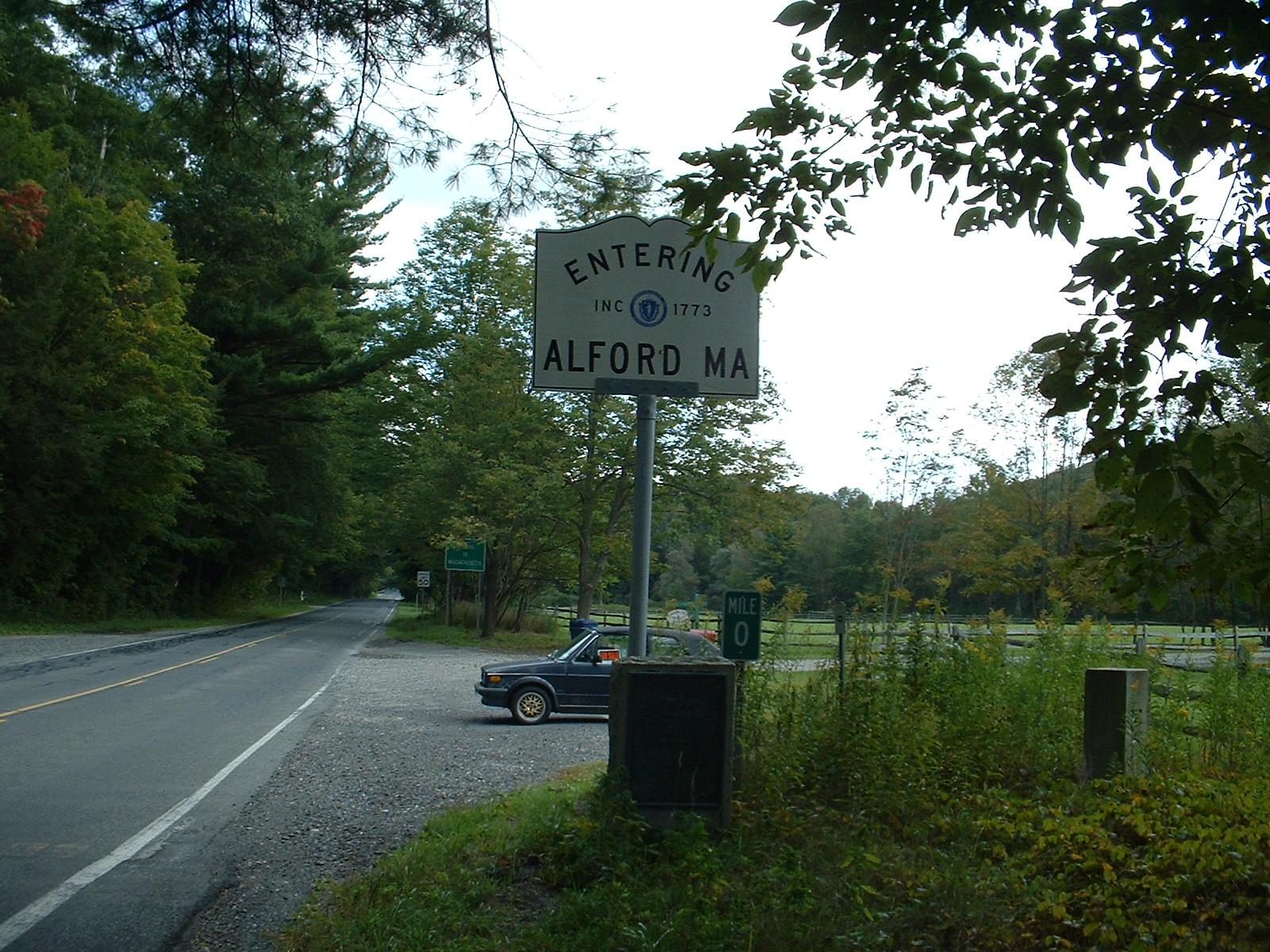 The Massachusetts state line at Rte. 71 in Alford, with a Knox Trail marker beside the sign. General Knox entered the state near this point on his way to Boston with the cannon to end the Siege of Boston. Massachusetts state line, Route 71, Alford, MA